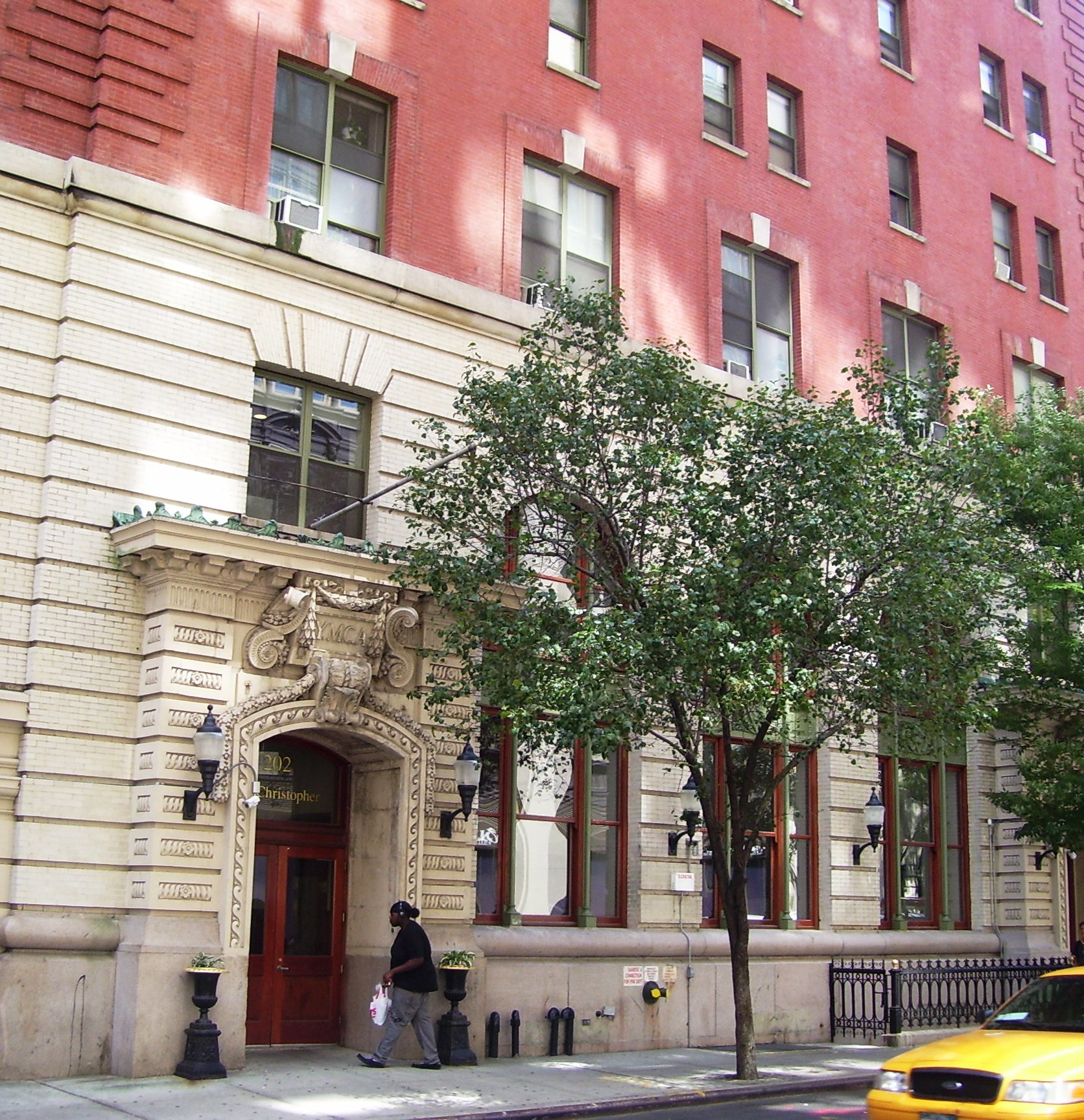 The Christopher at 202 West 24th Street, one of the housing facilities of Common Ground (NYC)